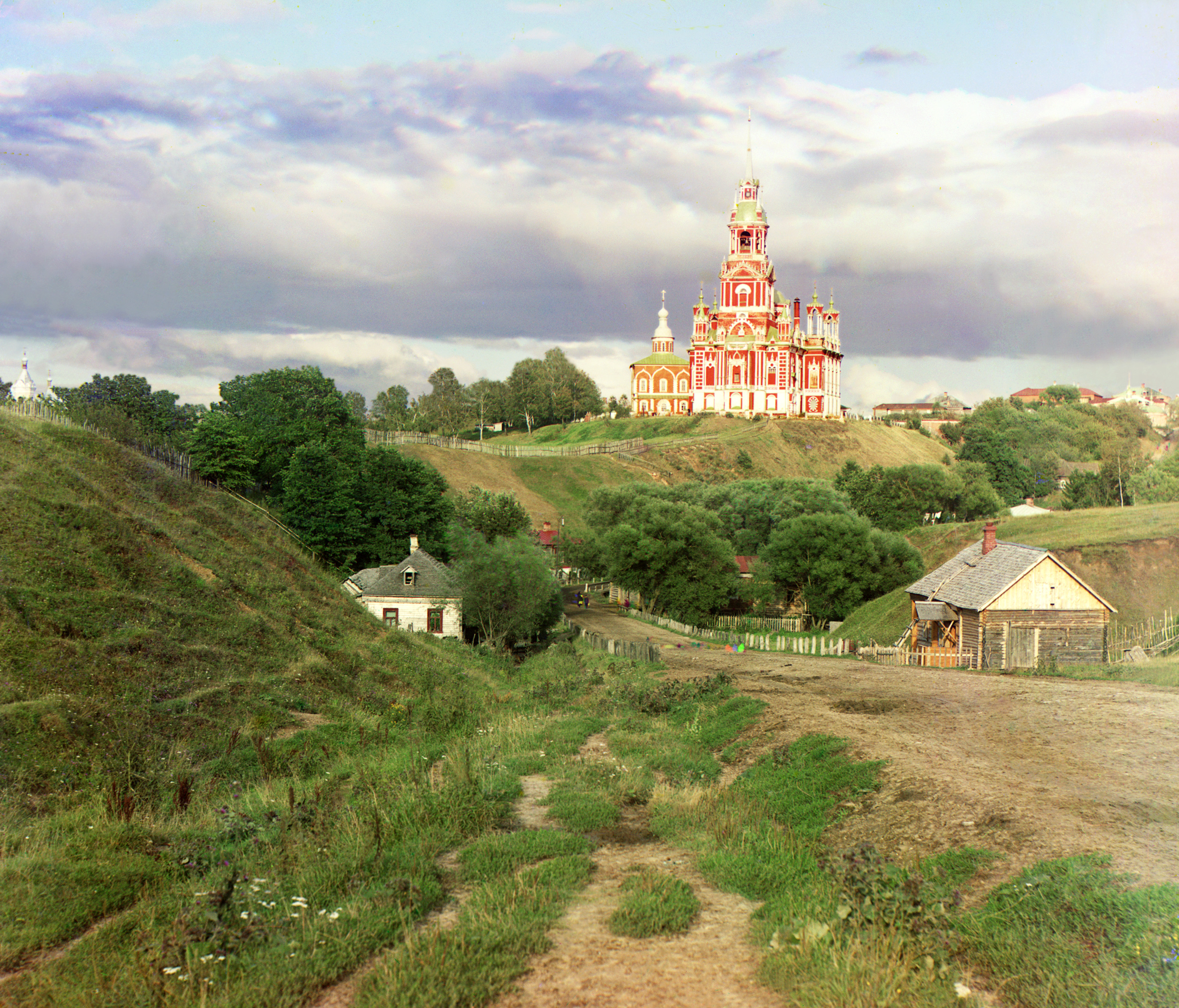 Early color photograph from Russia, created by Sergei Mikhailovich Prokudin-Gorskii as part of his work to document the Russian Empire from 1909 to 1915. Cathedral of St. Nicholas in Mozhaisk.